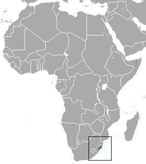 Sclater's Mouse Shrew (Myosorex sclateri) range